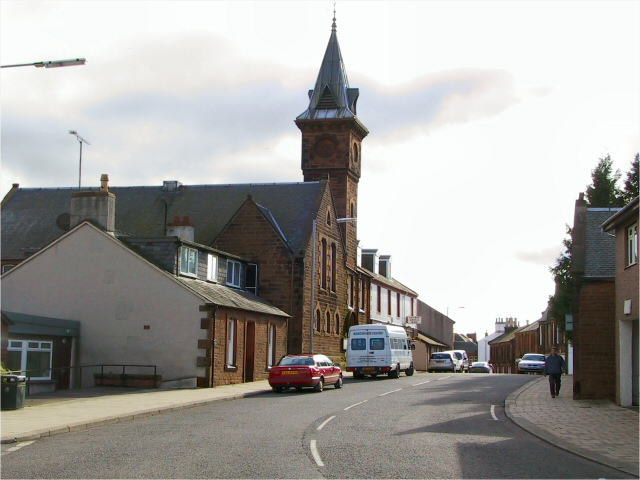 Lockerbie. This imposing building faces the church on the main street through Lockerbie, just north of the town centre.